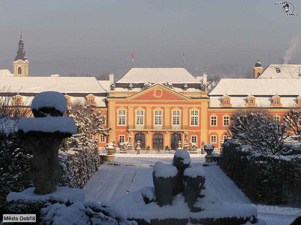 Castle in Dobříš (CZE), winter 2004 Author: Daniel Hošek Wikipedista:Mee